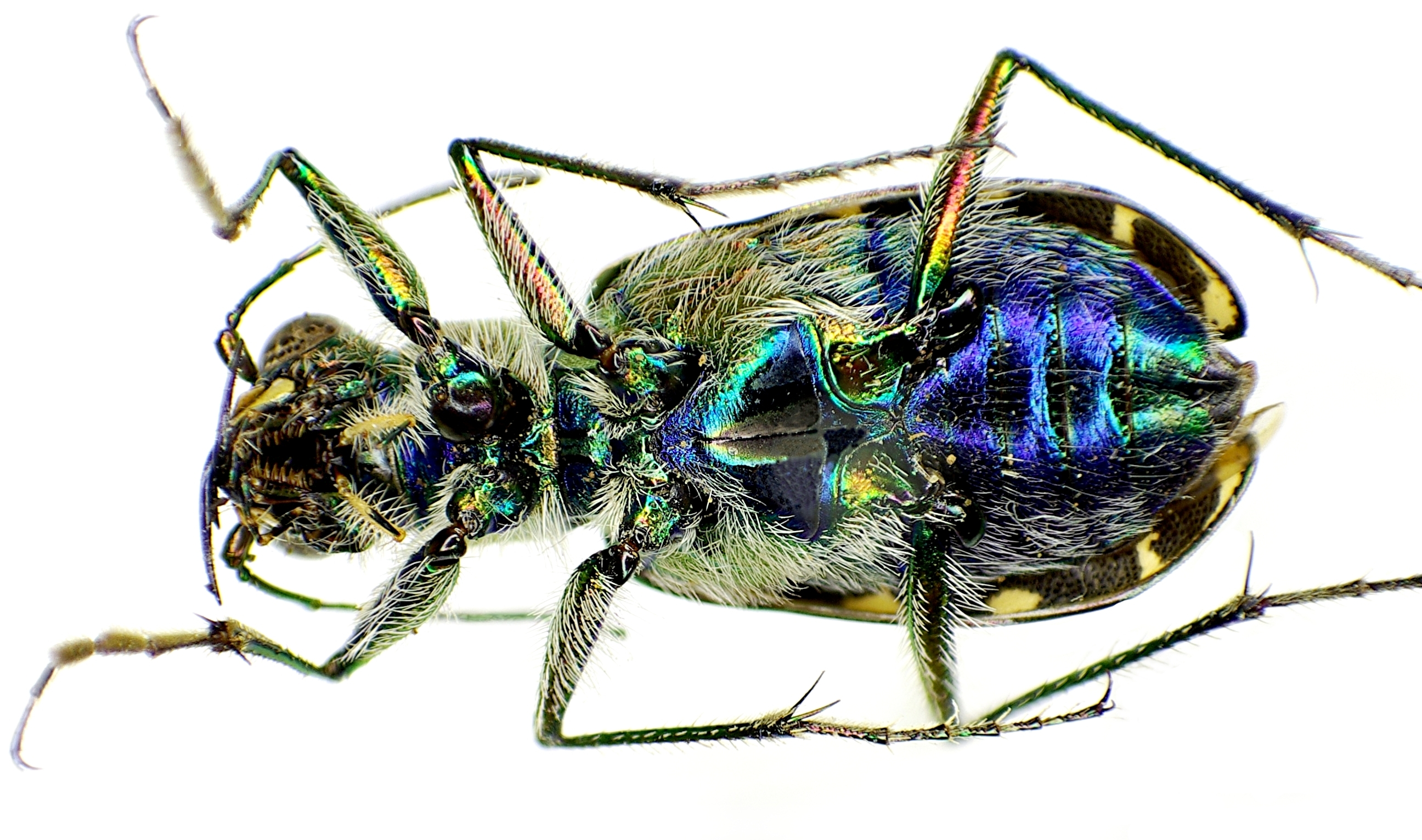 Underside